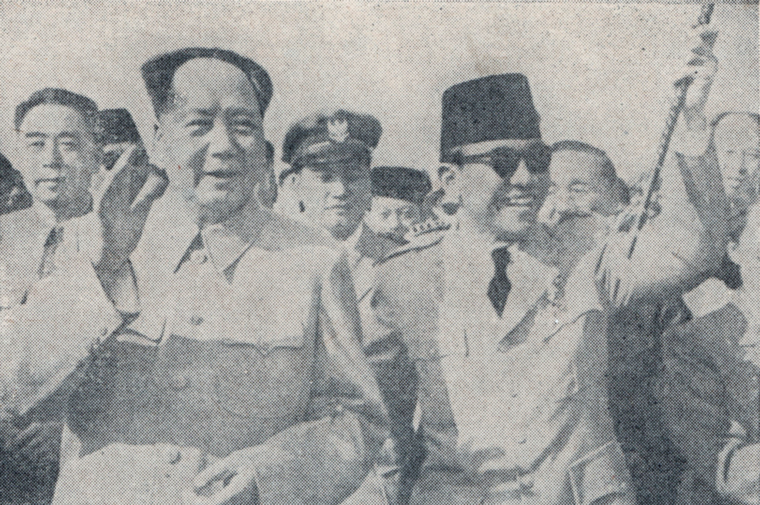 Sukarno with Mao Zhedong in China in 1956